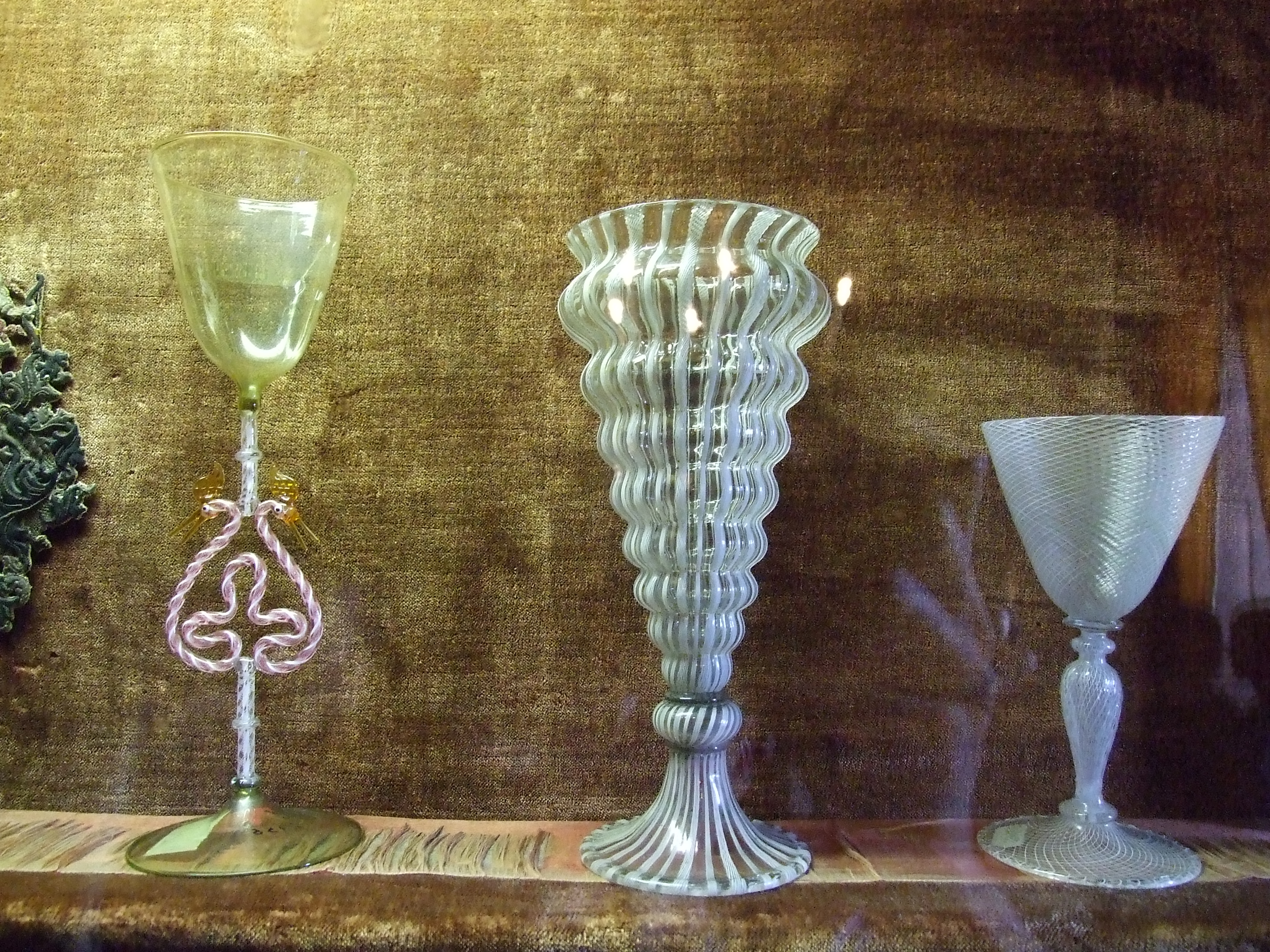 Opočno castle